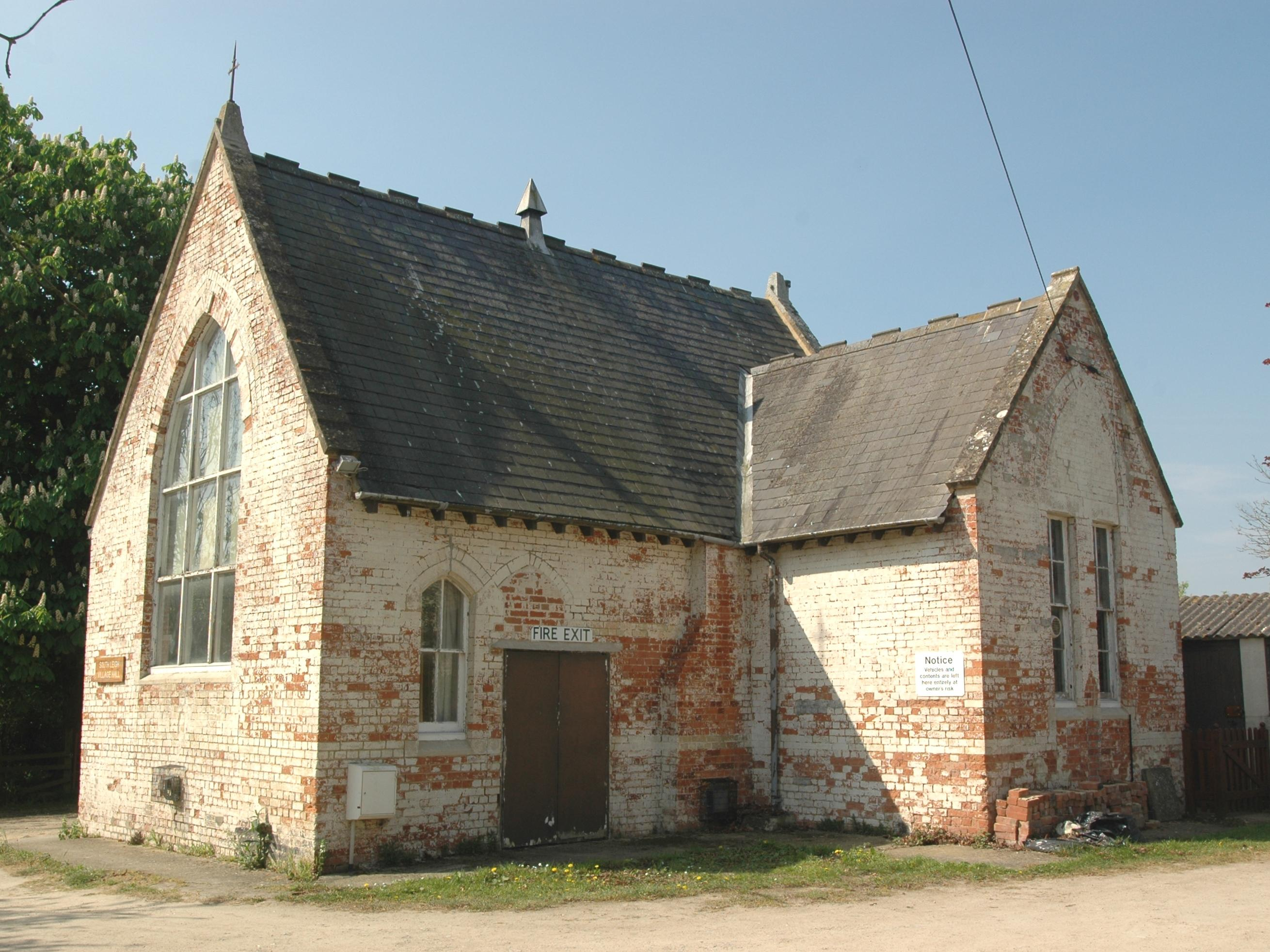 Village Hall at South Leigh, Oxfordshire: formerly a National School